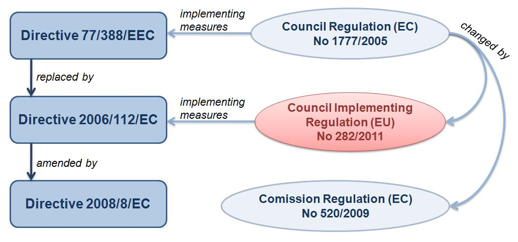 A diagram showing Council Implementing Regulation (EU) No. 282/2011, relating to value-added tax, in context with other relevant European Union directives and regulations.